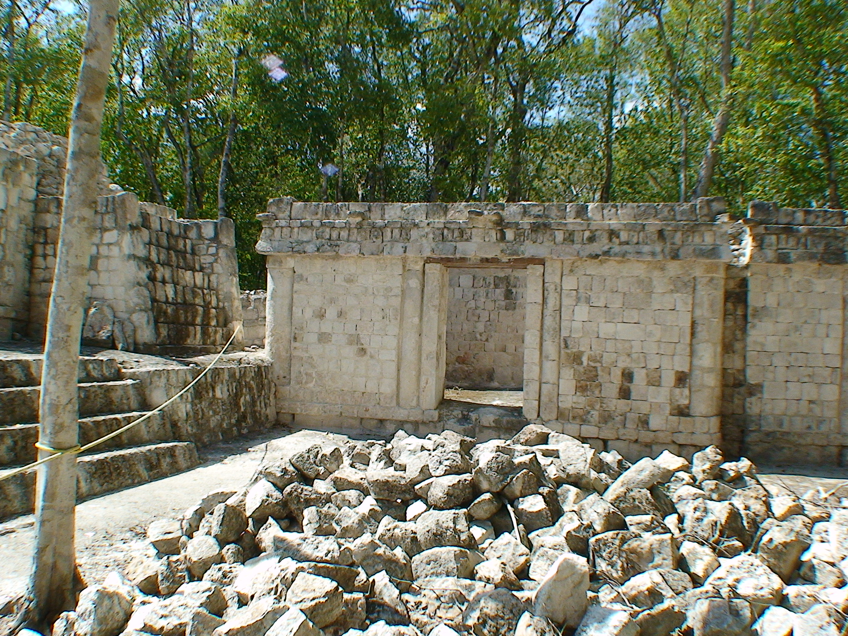 Santa Rosa Xtampak, Campeche, Mexico: Cuartel, southwest corner